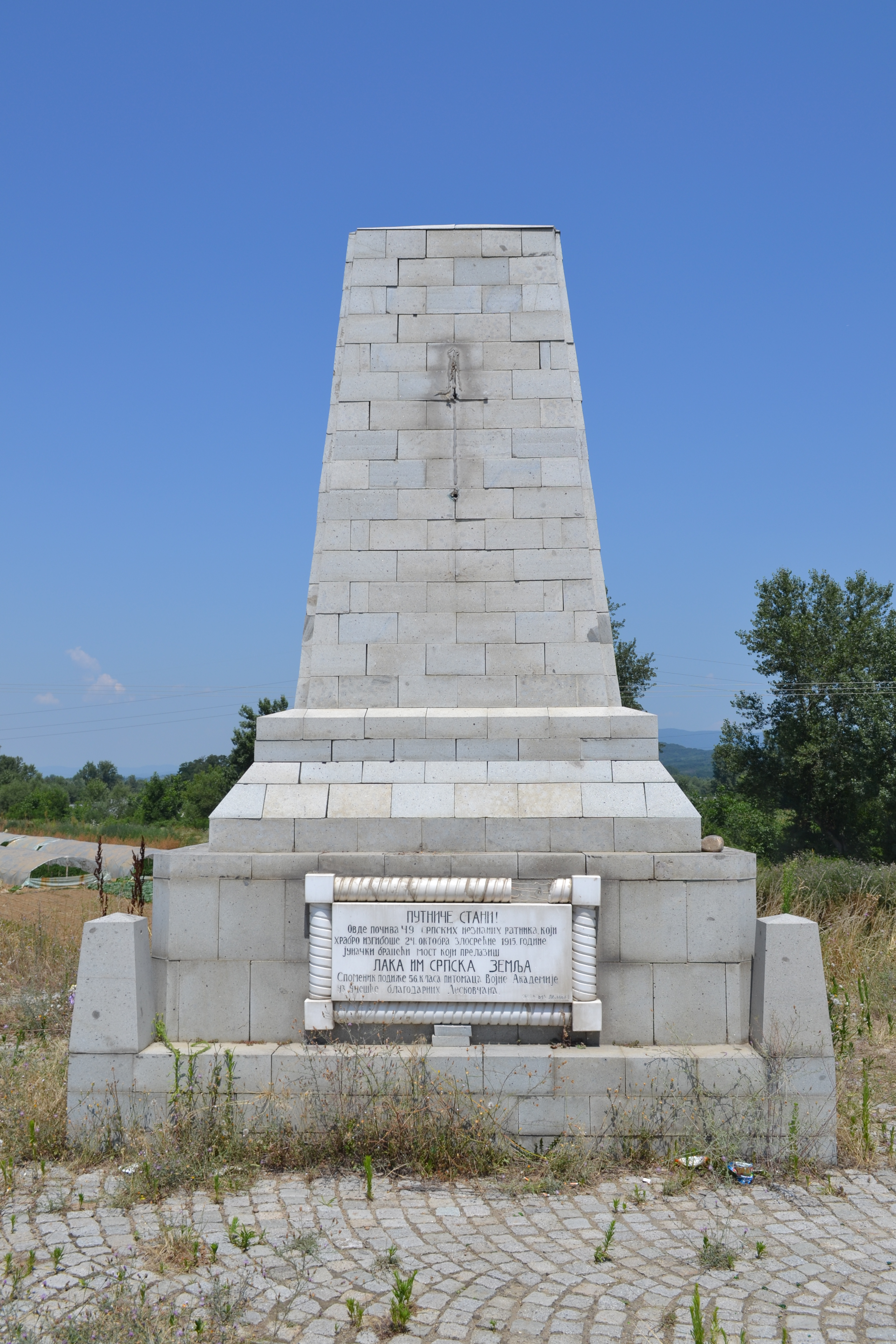 Споменик Тимочке дивизије на путу Лесковац - Власотинце